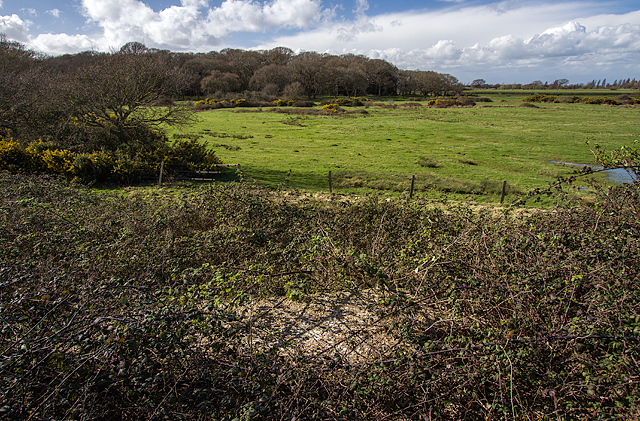 WWII Hampshire: Hayling Island - Tournerbury Marsh pillbox (19)